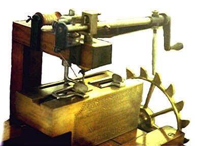 Newton Wilson's copy of Saints sewing machine.